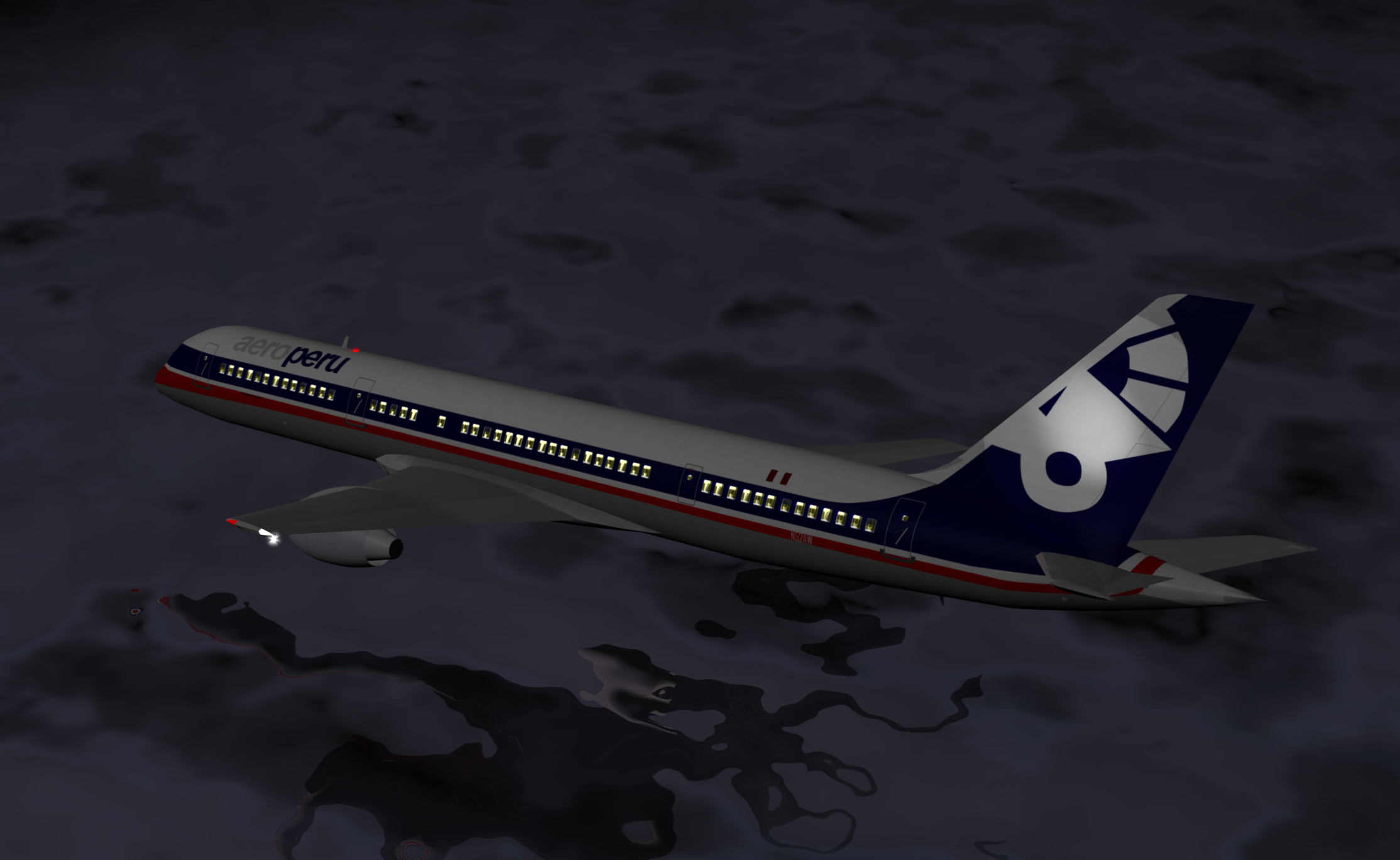 Aeroperú Flight 603